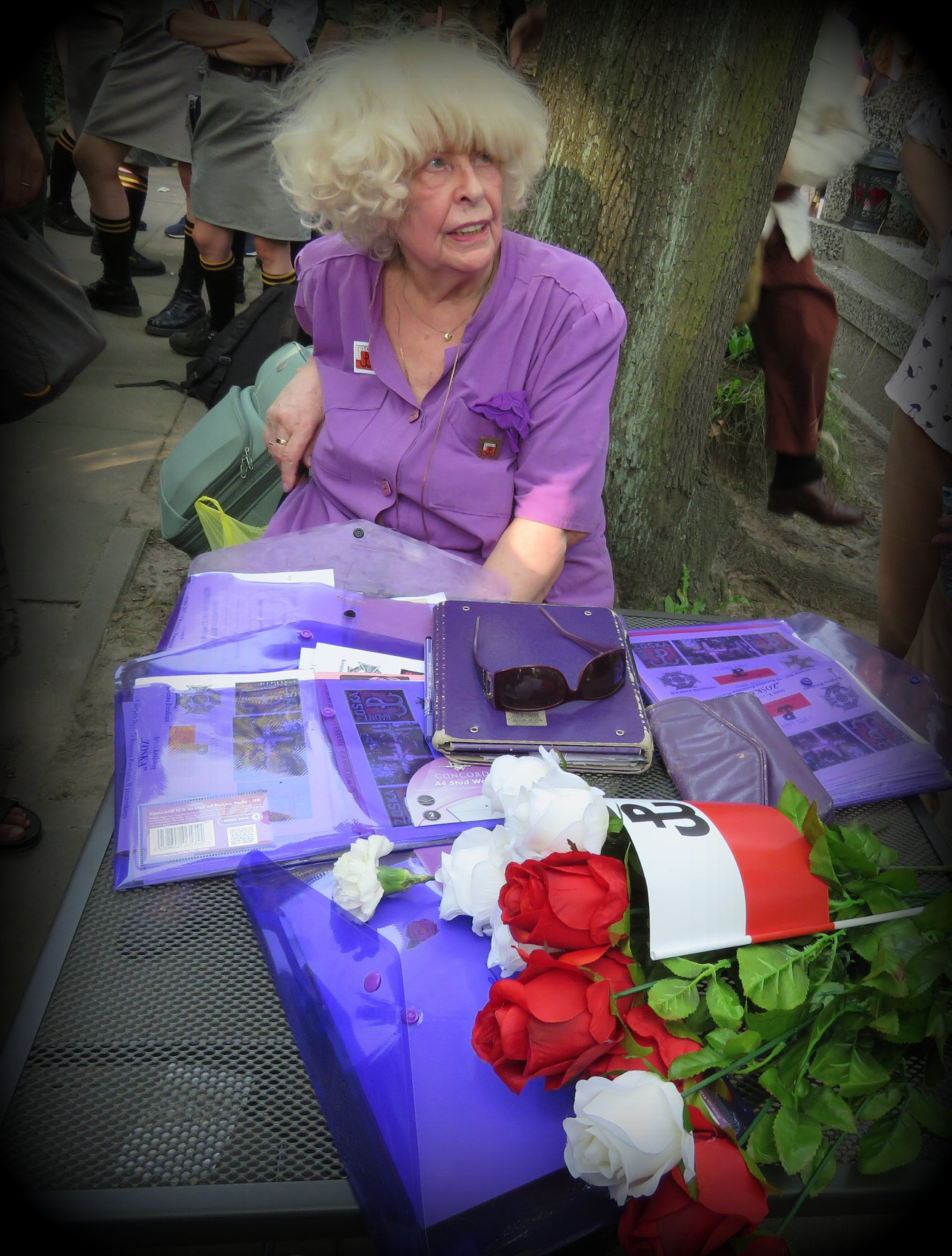 Barbara Wachowicz